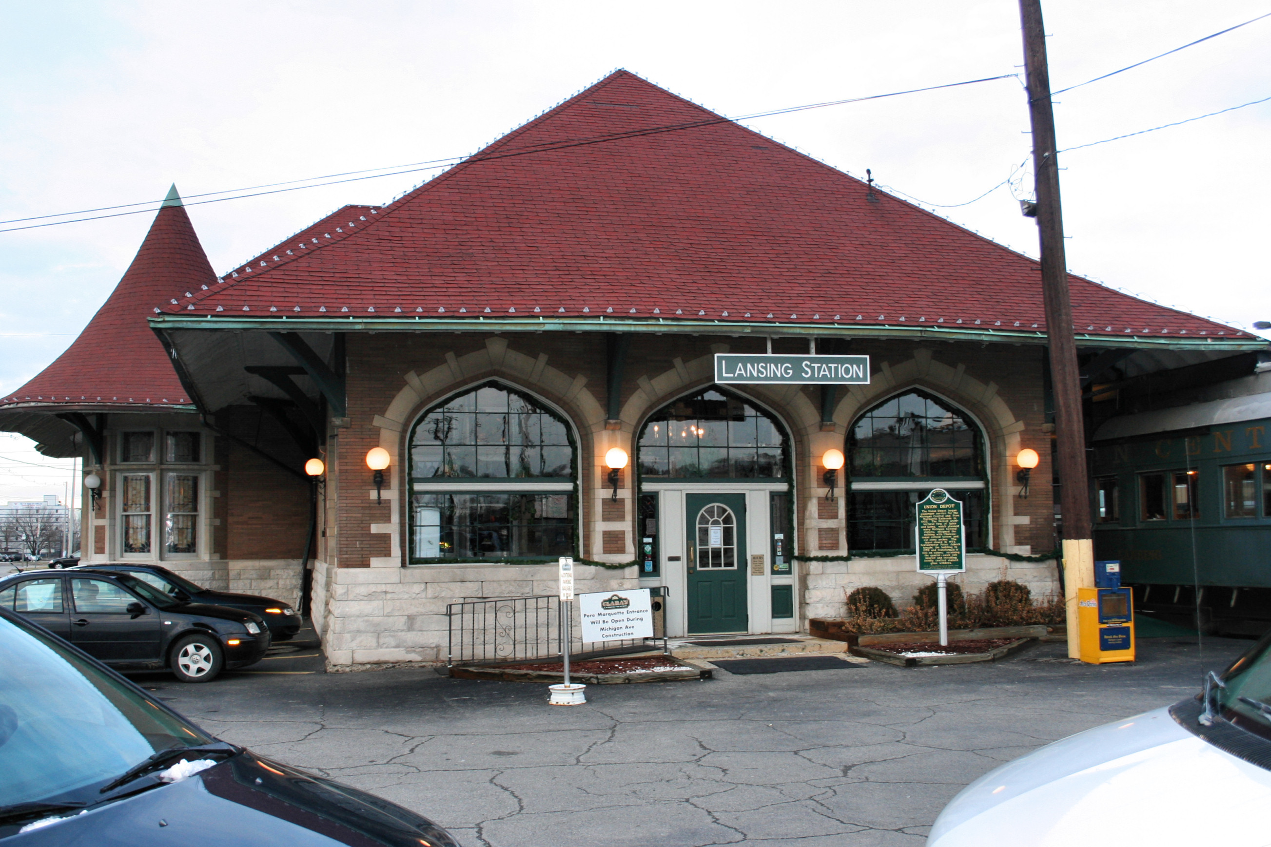 A photograph of the old Union Depot in downtown Lansing, Michigan. It is located on Michigan Avenue, east of the Capitol building.